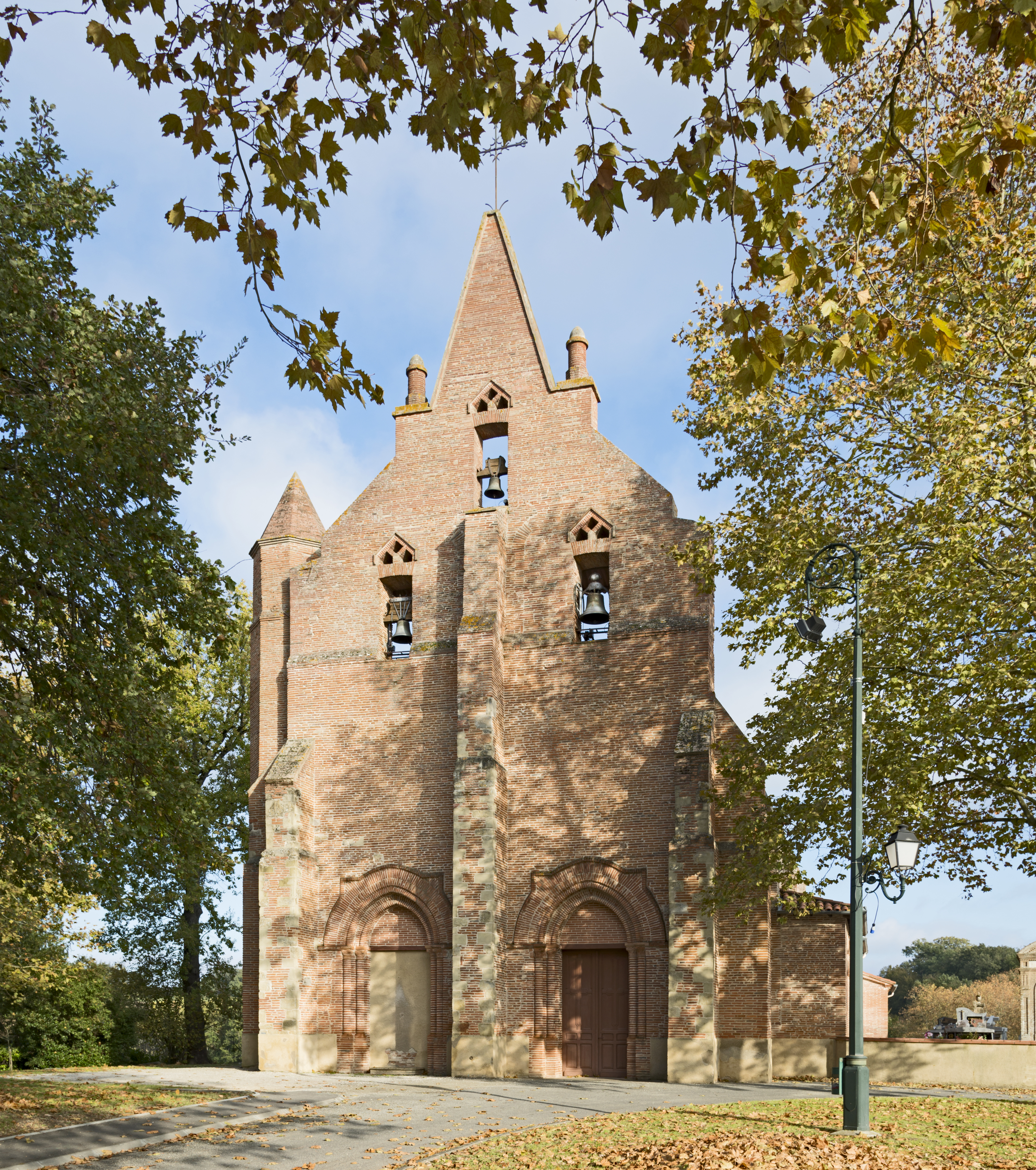 Villariès Haute-Garonne, France. The church (fifteenth century).